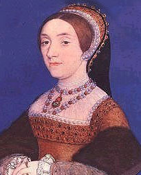 Portrait miniature of a lady, perhaps Katherine Howard, by Hans Holbein the Younger.